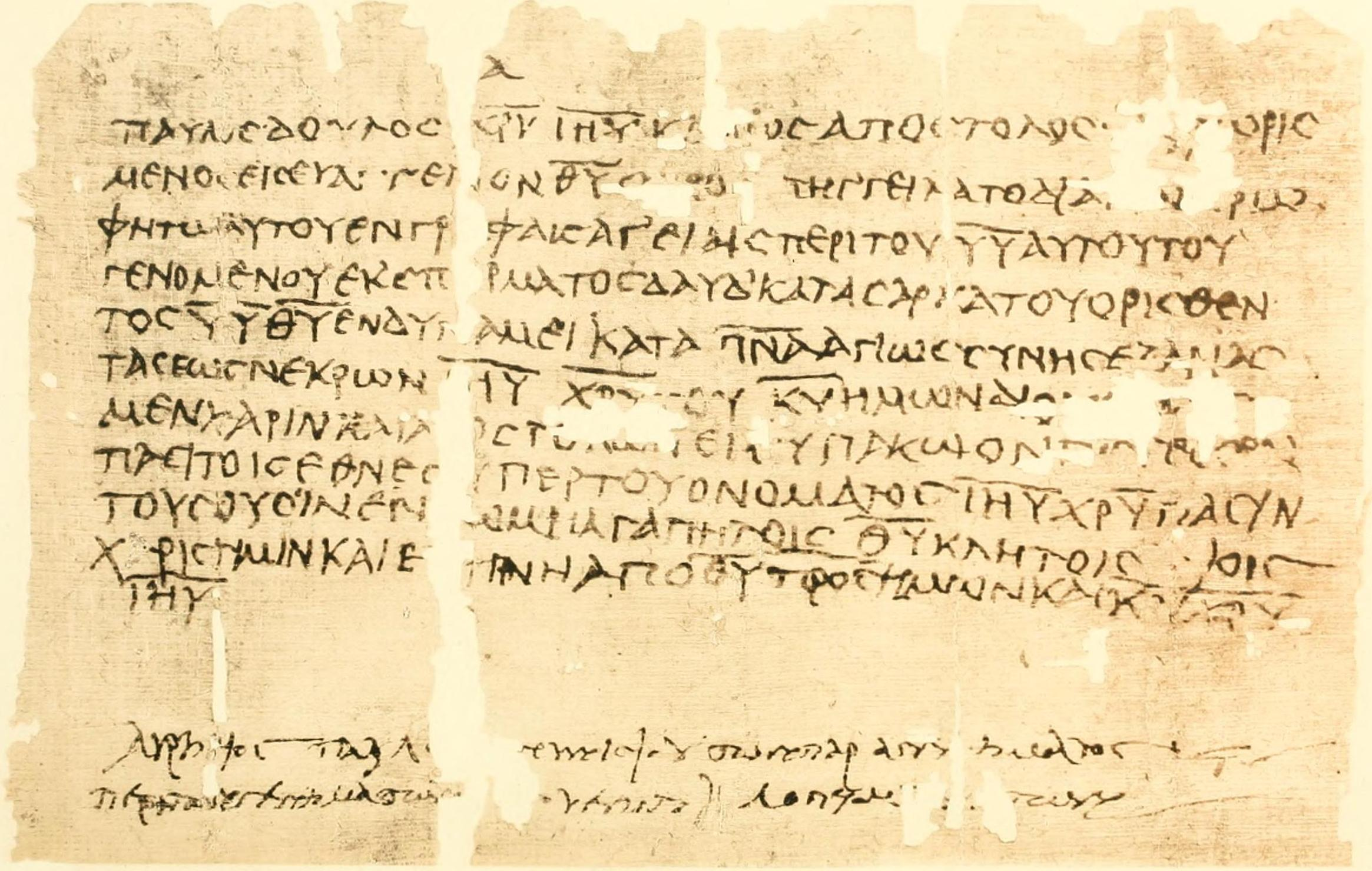 page with text of Epistle to the Romans 1:1-7